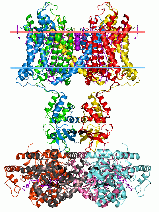 Protein image from OPM database